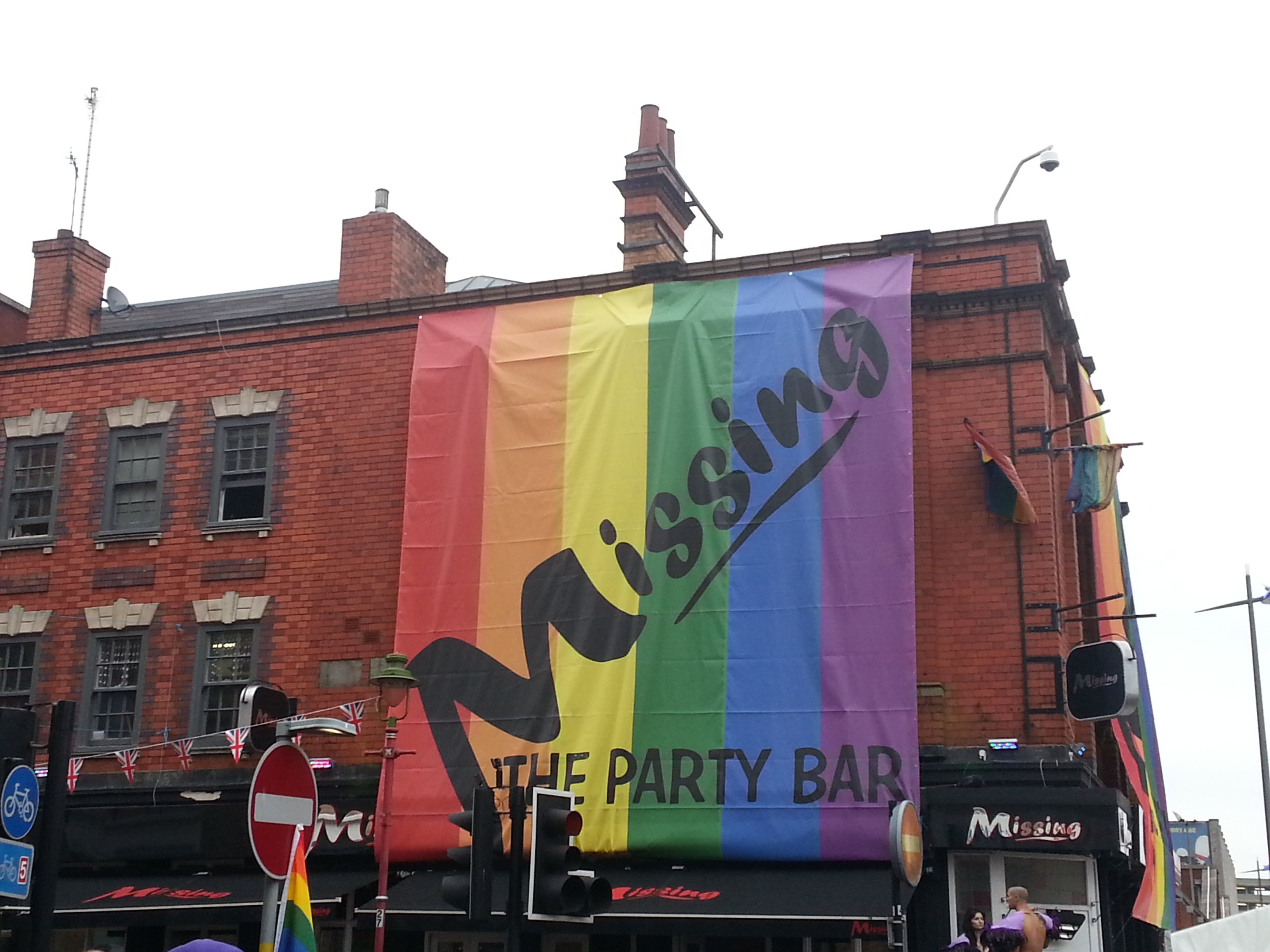 The Missing Bar at Birmingham gay pride 2012 decorated with a giant pride flag